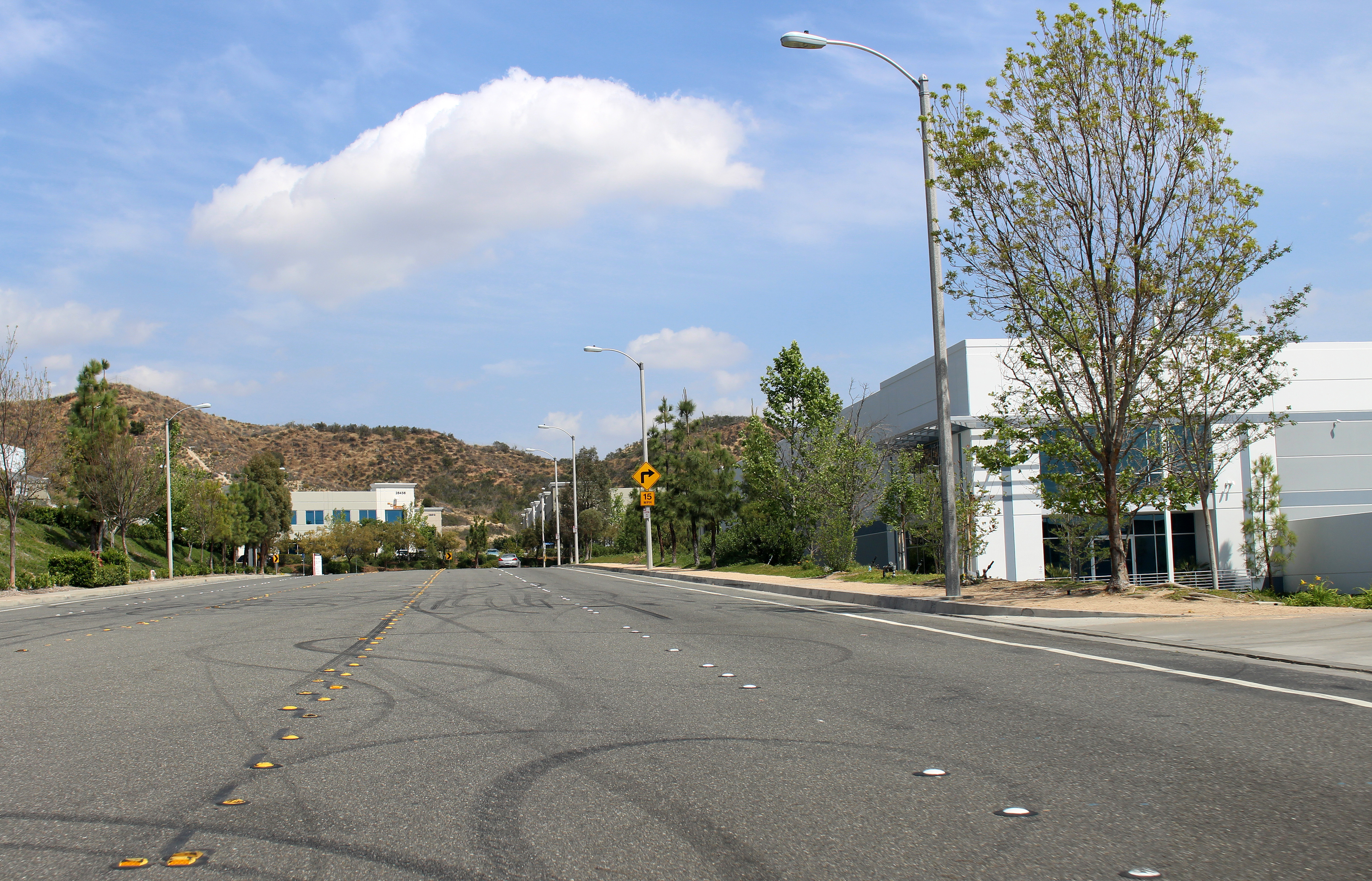 Hercules Street, facing eastbound, in the Rye Canyon Business Park in the Valencia neighborhood of Santa Clarita, California. According to media reports, the location on the right (just after the driveway) is reportedly where Paul Walker and Roger Rodas perished in a single-vehicle accident on November 30, 2013. The small objects on the ground barely visible to the right of the first light pole appear to be flowers left by fans. Photographed on April 5, 2015 by user Coolcaesar.